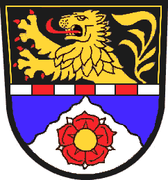 Coat of arms of Kraftsdorf.